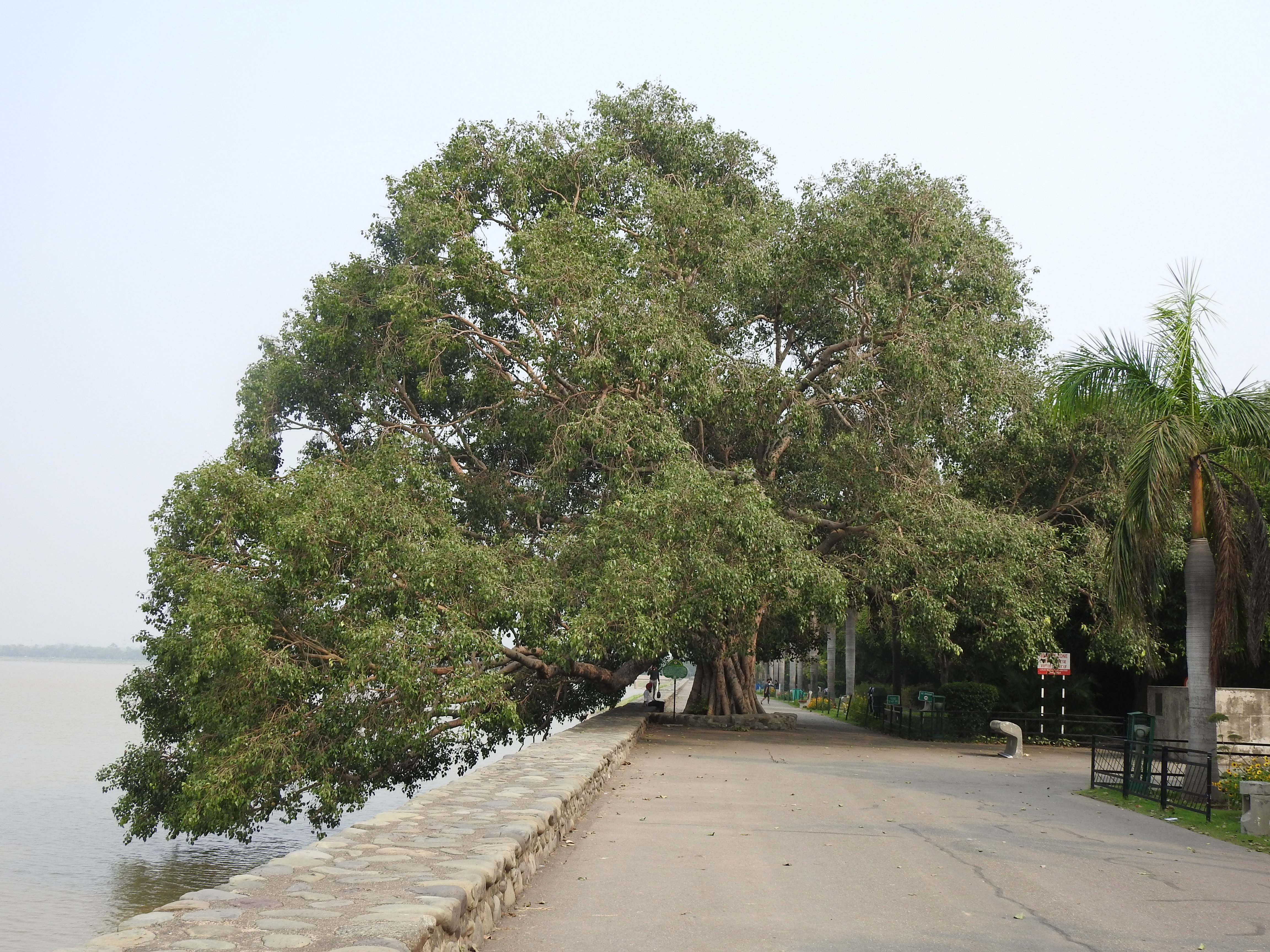 Heritage Trees of Chandigarh are tose trees which are 100 years old were identified and put in a list of “heritage status. This Peepal Heritage Tree shown in image is situated on bank of Sukhna Lake , Chandigarh.